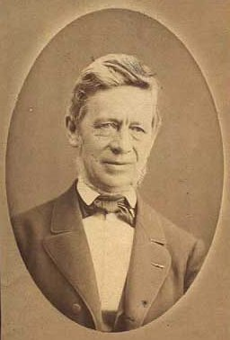 Danish engineer, Master Builder of the Port of Copenhagen, politician, professor Ludvig Ferdinand Holmberg (1826-1897)